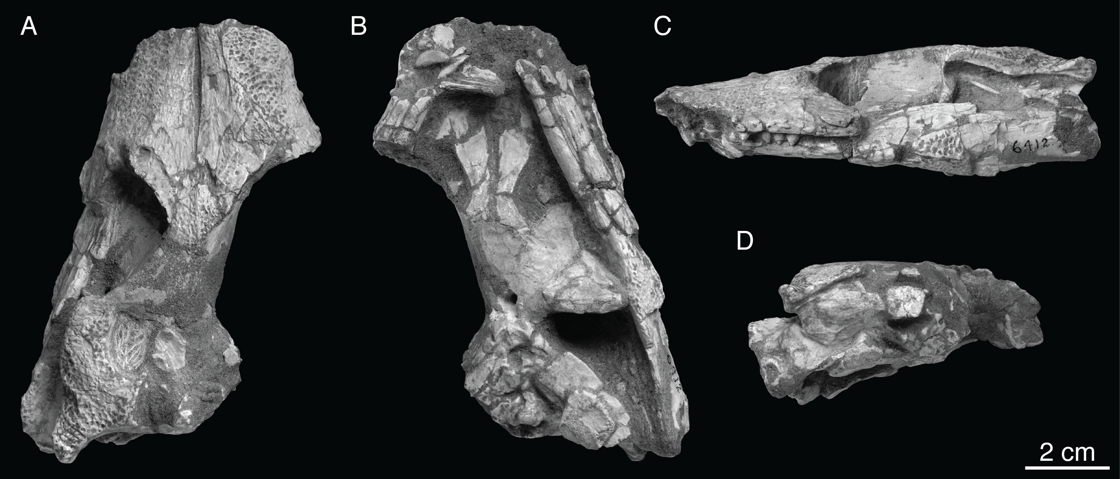 AMNH FARB 6412 (holotype), Shamosuchus djadochtaensis, Djadokhta Fm., Campanian, Mongolia. Photographs in A, dorsal, B, ventral, C, left lateral, D, occipital views.